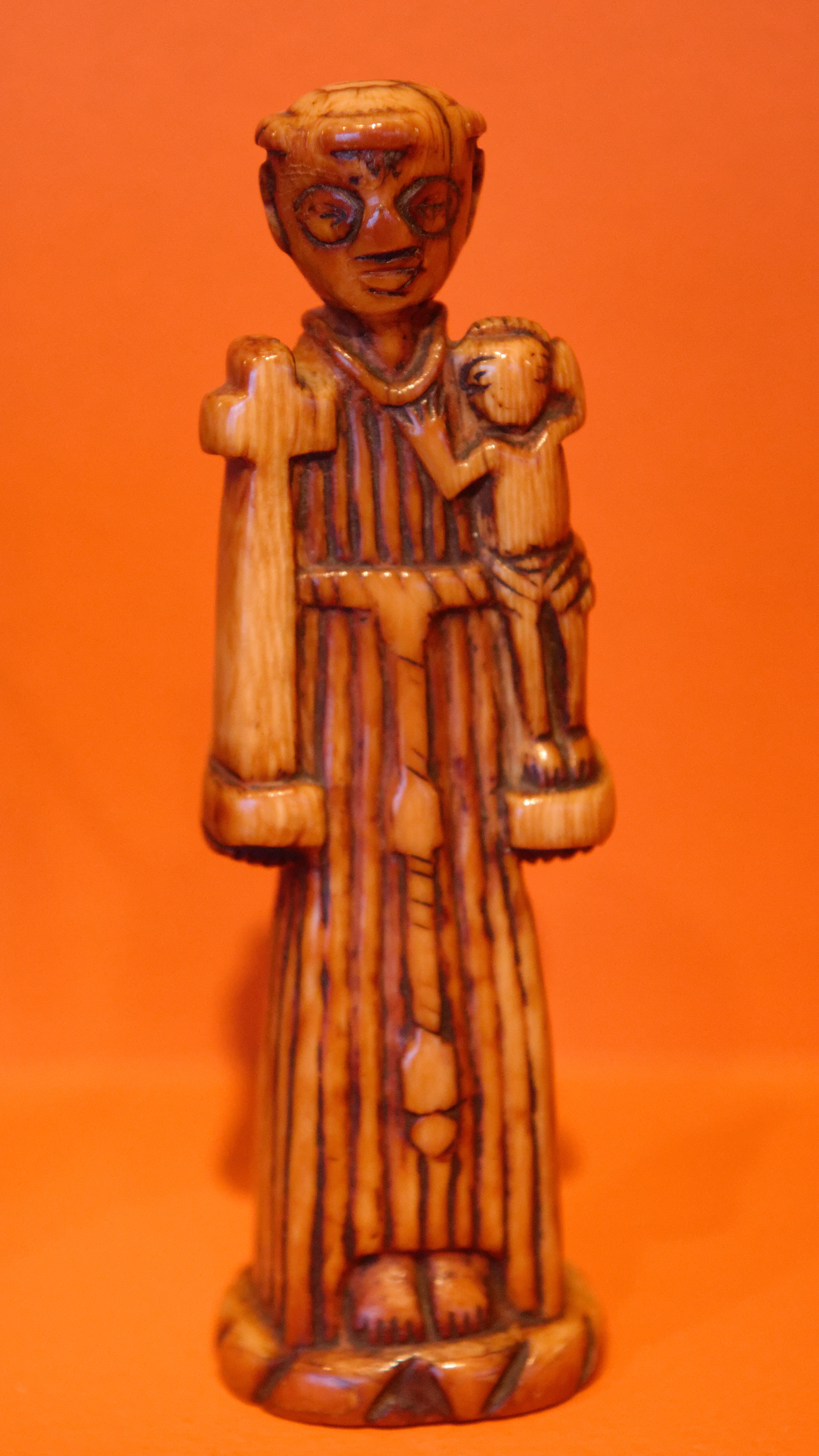 Pendant with “Toni Malau” (St Anthony of Padua), Kongo culture.